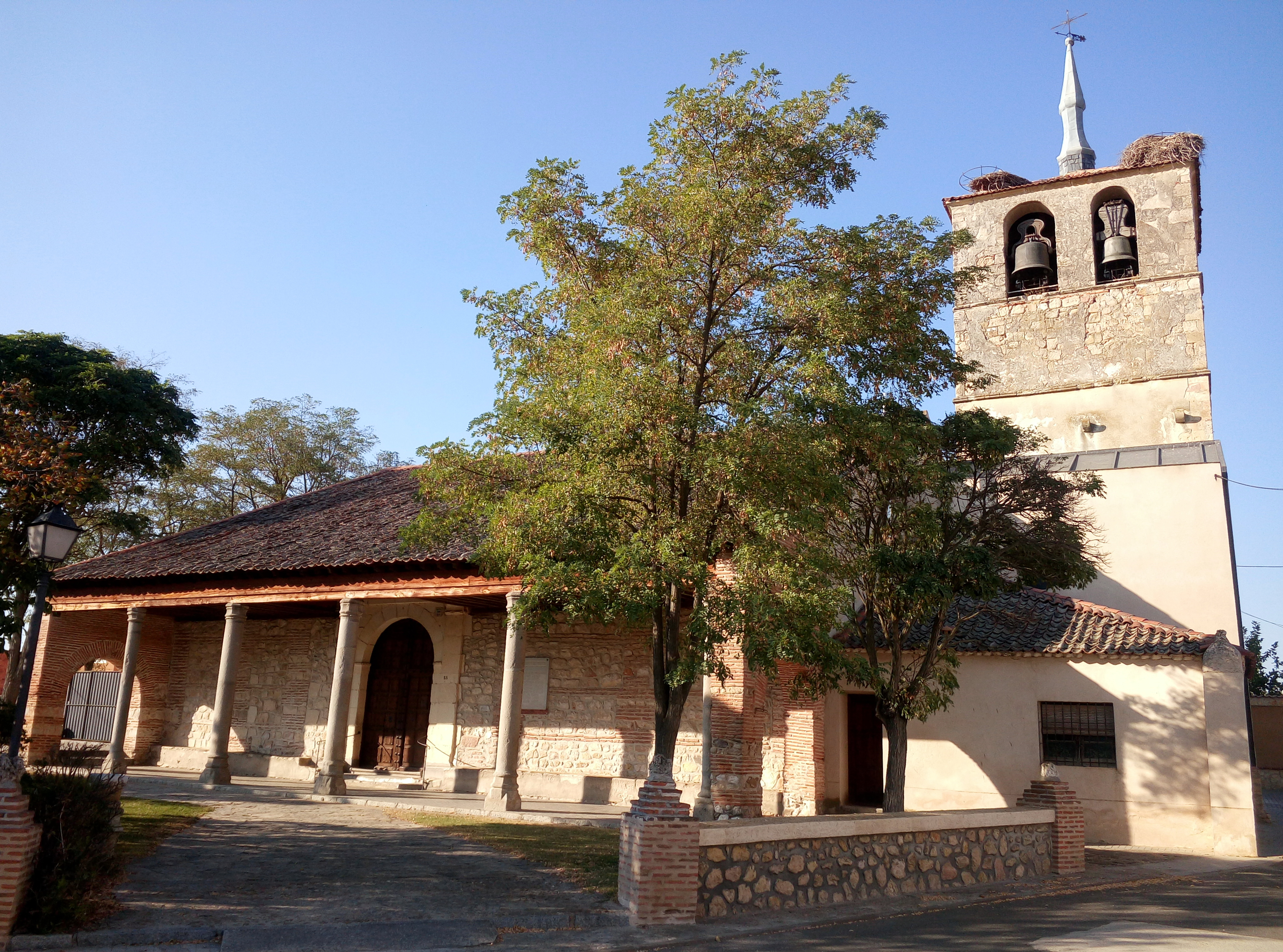 Church of St. John the Baptist in Mozoncillo, Segovia, Spain.